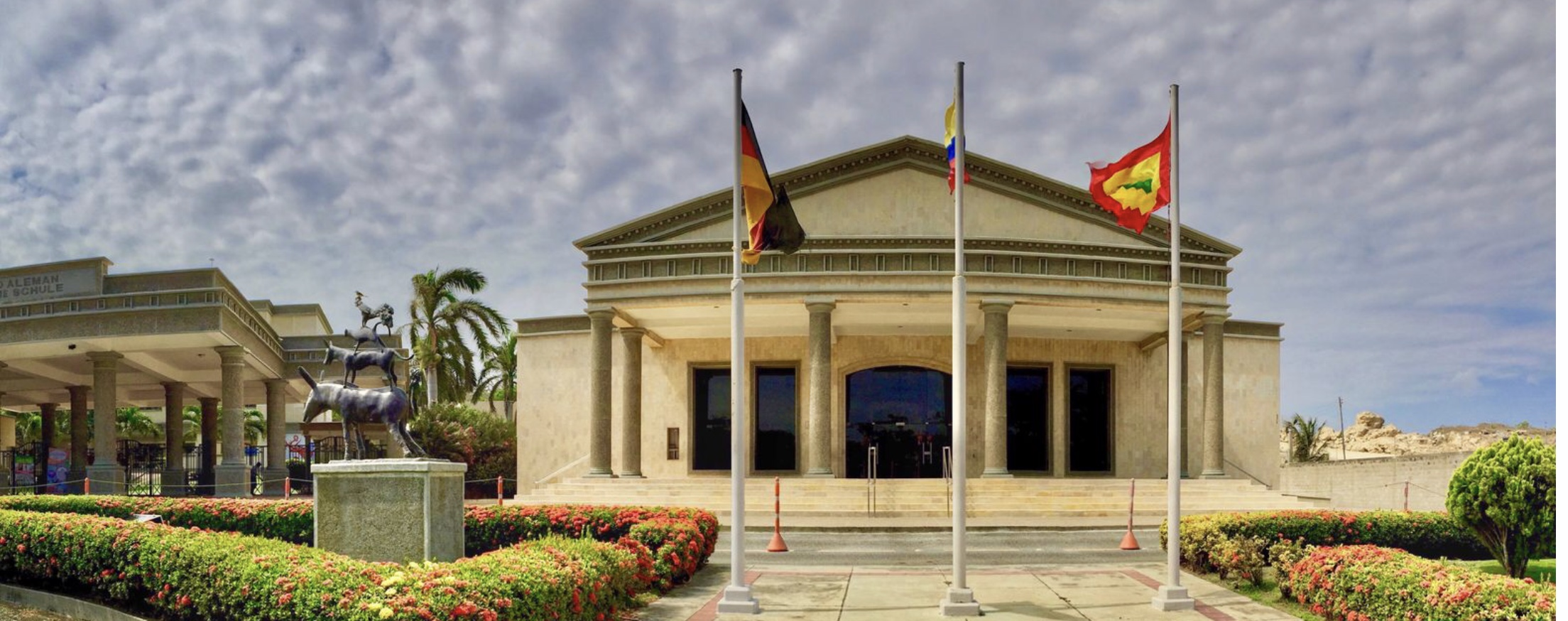 The entrance of the German School in Barranquilla.